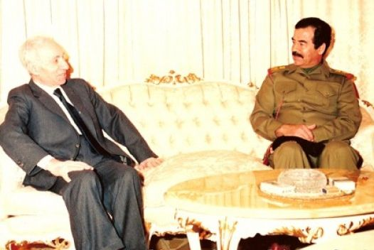 Baath Party founder Michel Aflaq (left) with Iraqi President Saddam Hussein (right) in 1988